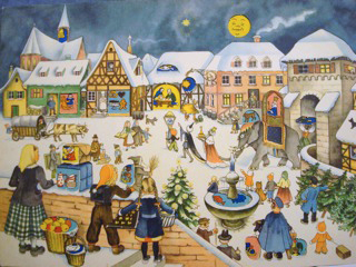 Advent calender